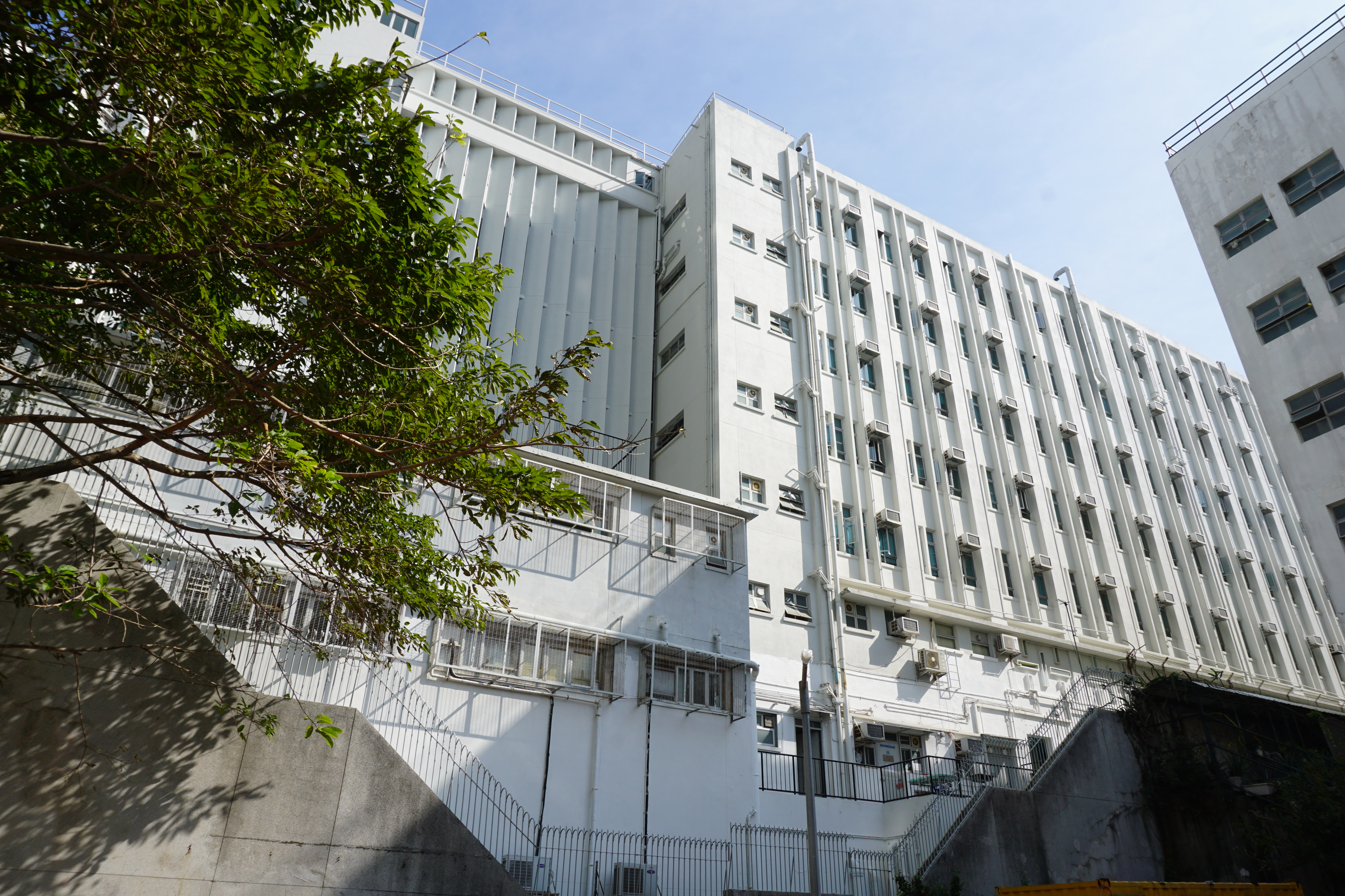 Holy Trinity College in Shek Kip Mei, Hong Kong.